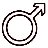 Male symbol. See also Image:Female.svg.